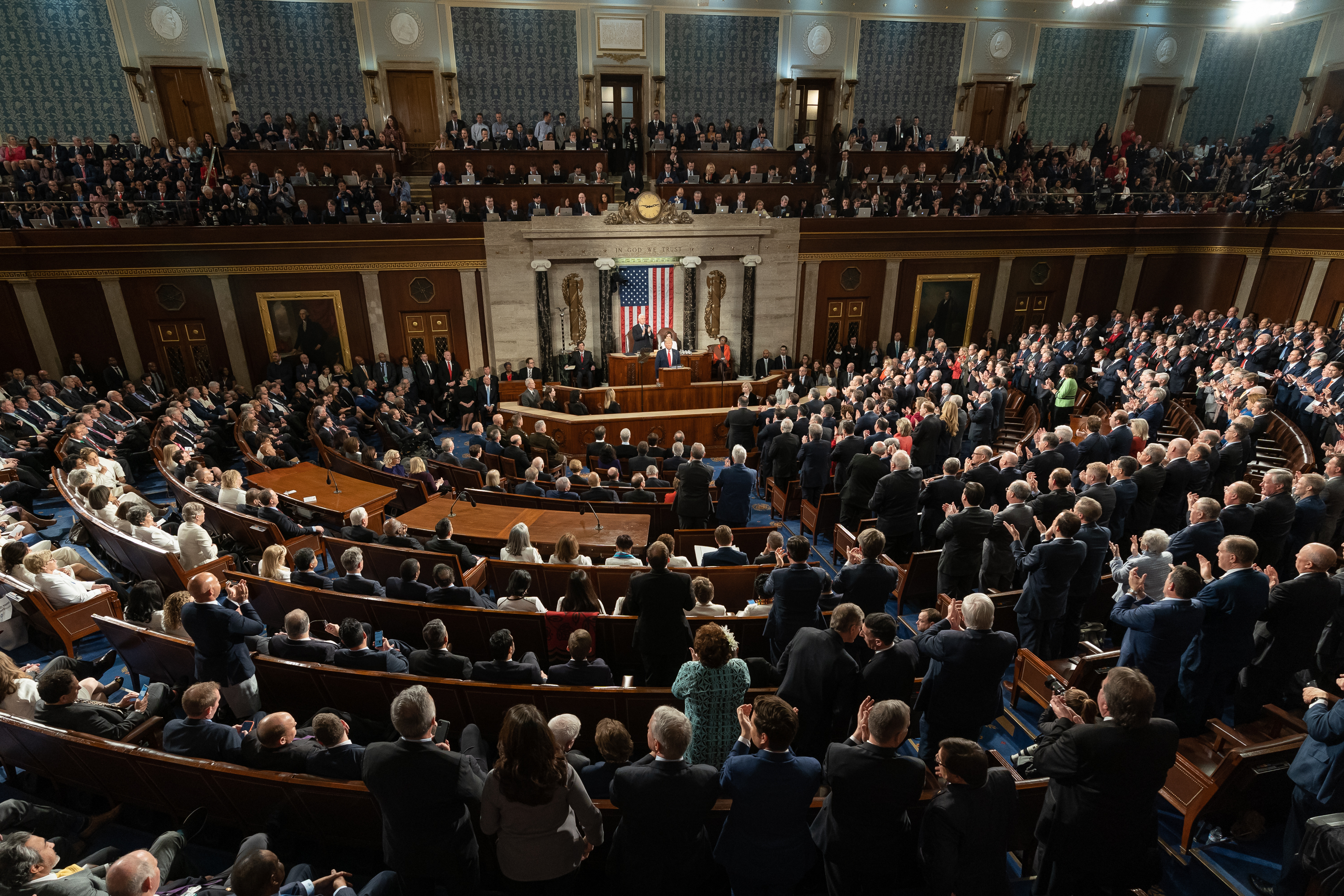 President Donald J. Trump delivers his State of the Union address Tuesday, Feb. 5, 2019, in the House Chamber of the U.S. Capitol in Washington, D.C. (Official White House Photo by Joyce N. Boghosian)